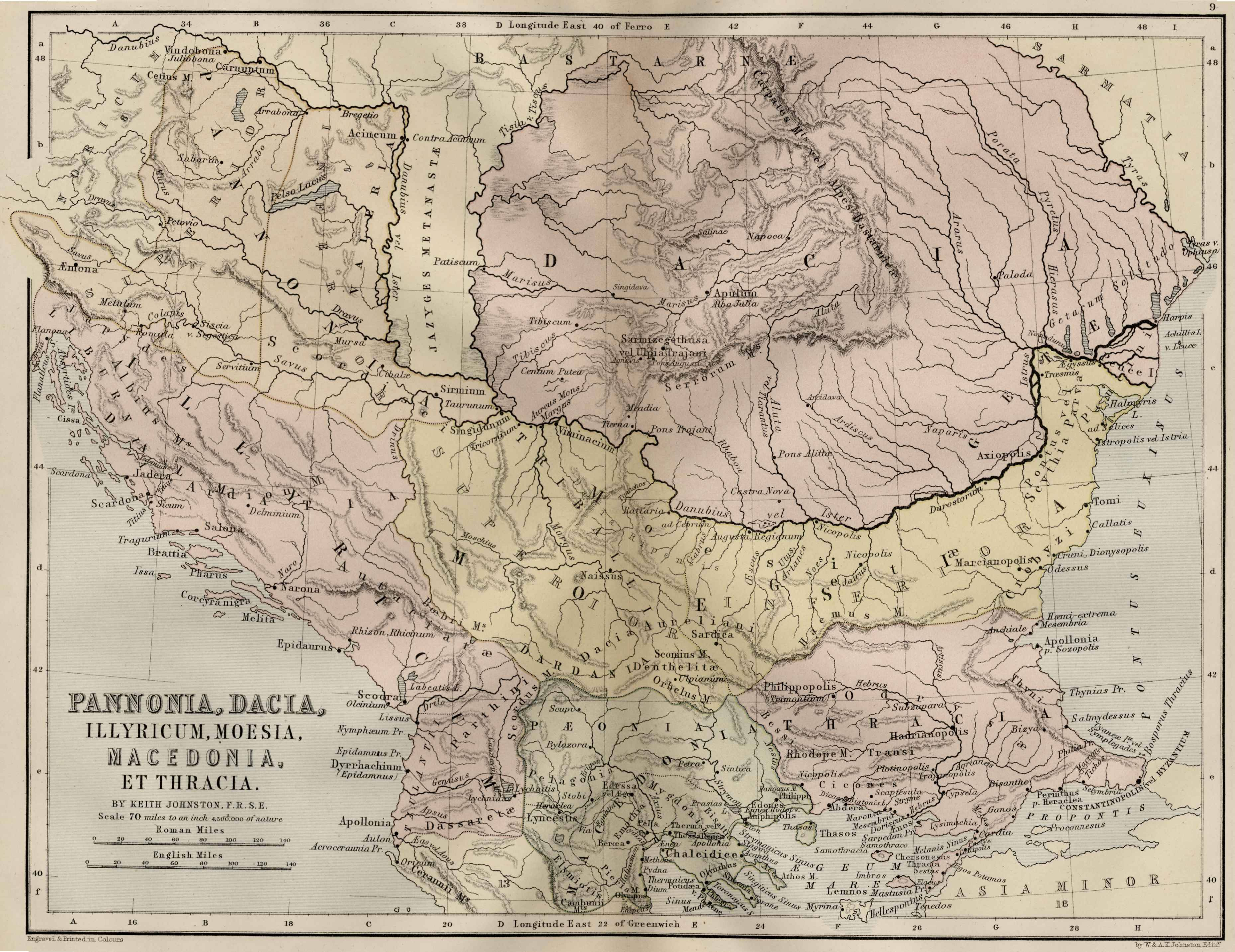 Map of Central Europe: Pannonia, Dacia, Illyricum, Thrace, Moesia, Macedonia and Thrace